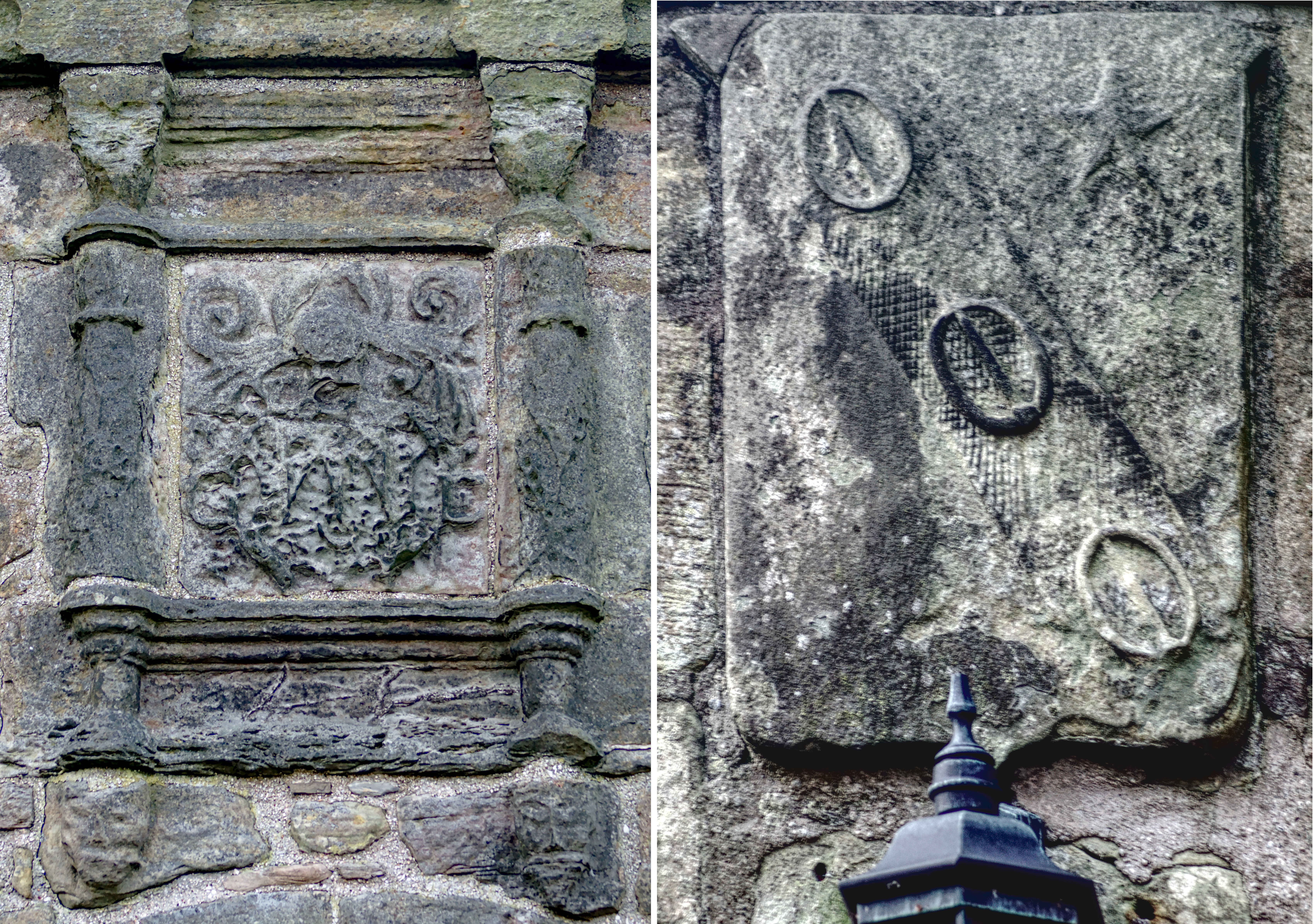 Two stone coats of arms are depicted of George Douglas on the left and the Stirling family on the right.